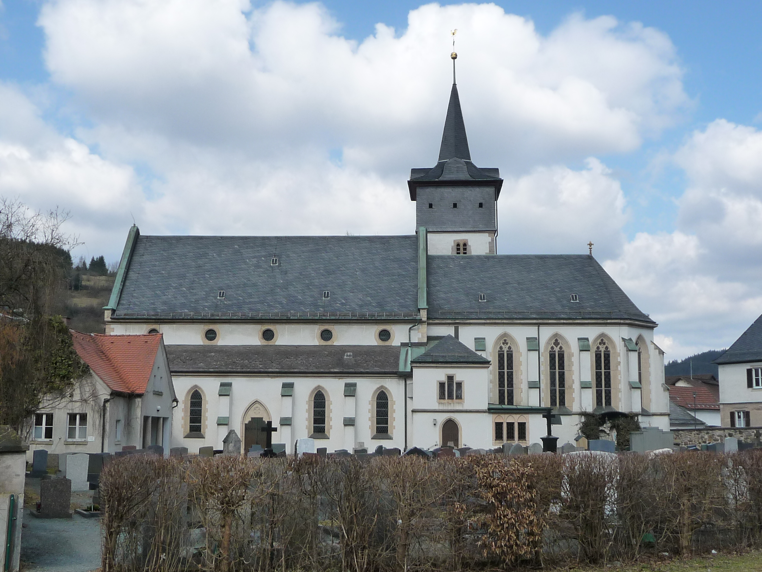 Sankt Maria (Steinwiesen)